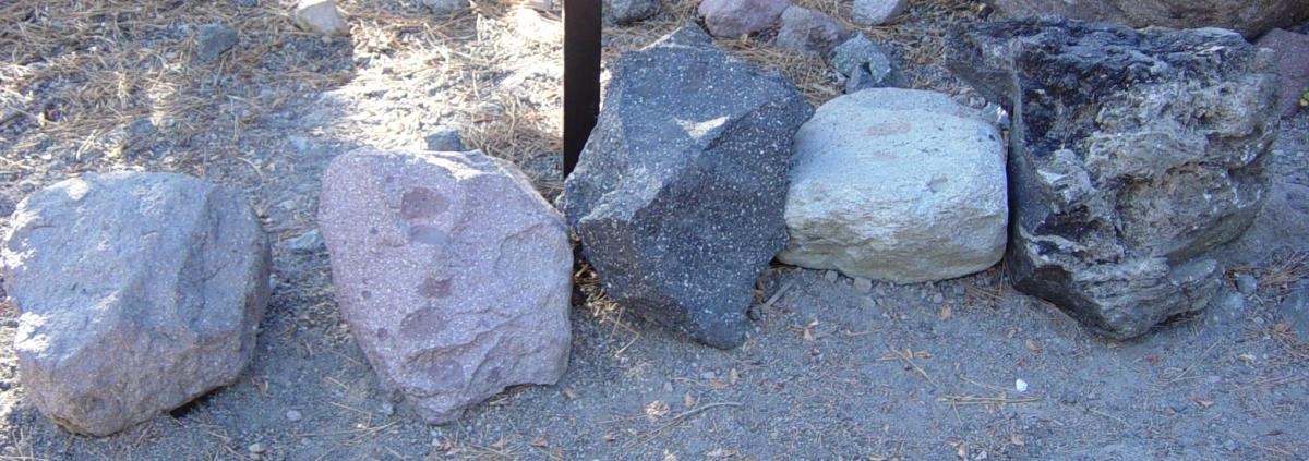 Photograph by Daniel Mayer. Taken in October 2003